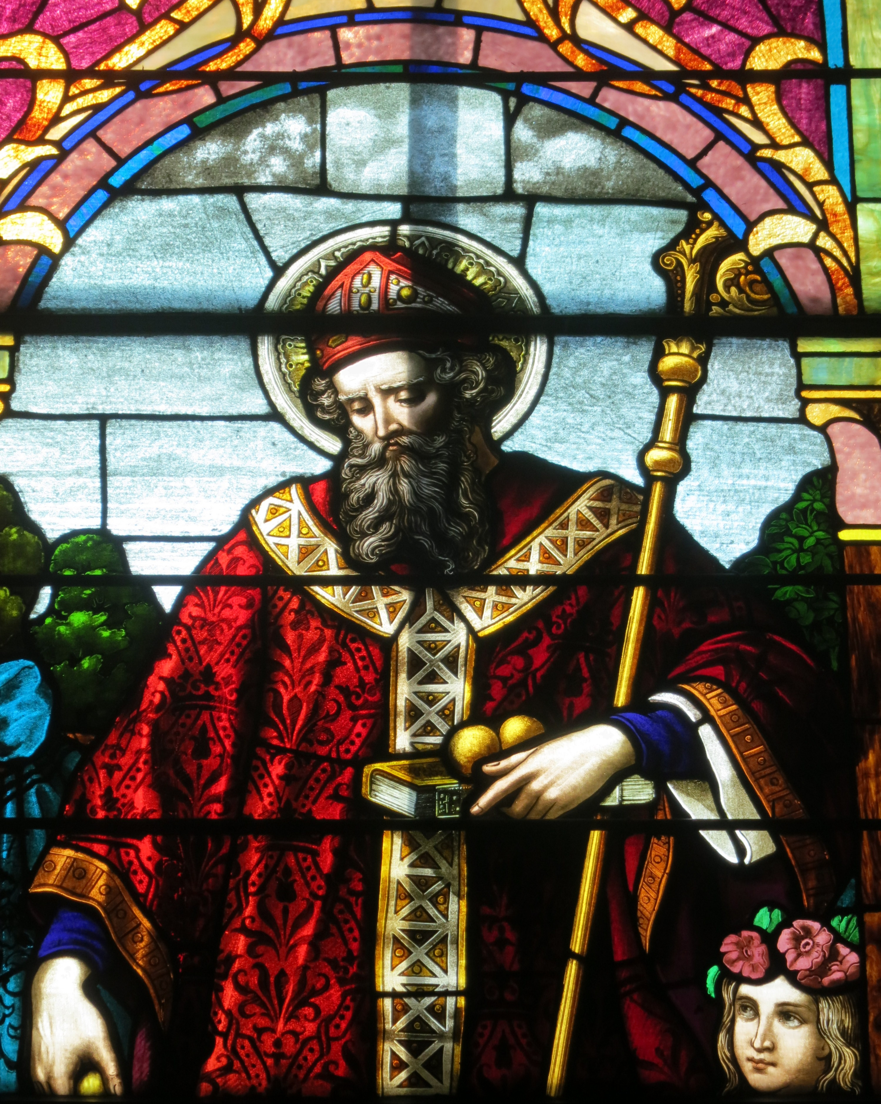 Saint Nicholas Church (Osgood, Ohio) - stained glass, Saint Nicholas - detail